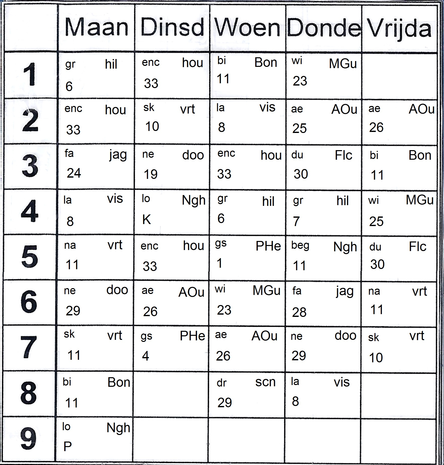 A school timetable (real used. This timetable is own work and made with Microsoft Paint.